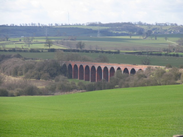 John O'Gaunt Disused Railway Viaduct. John O'Gaunt railway station on the Melton Mowbray to Market Harborough railway was on the approach to this viaduct off the picture to the right.